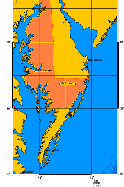 Delmarva Peninsula with Eastern Shore of Maryland highlighted